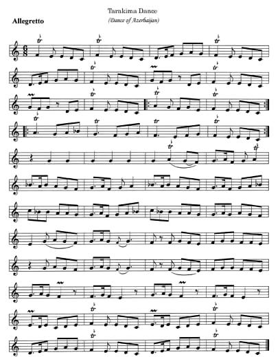 Azerbaijan national dances Tarakama